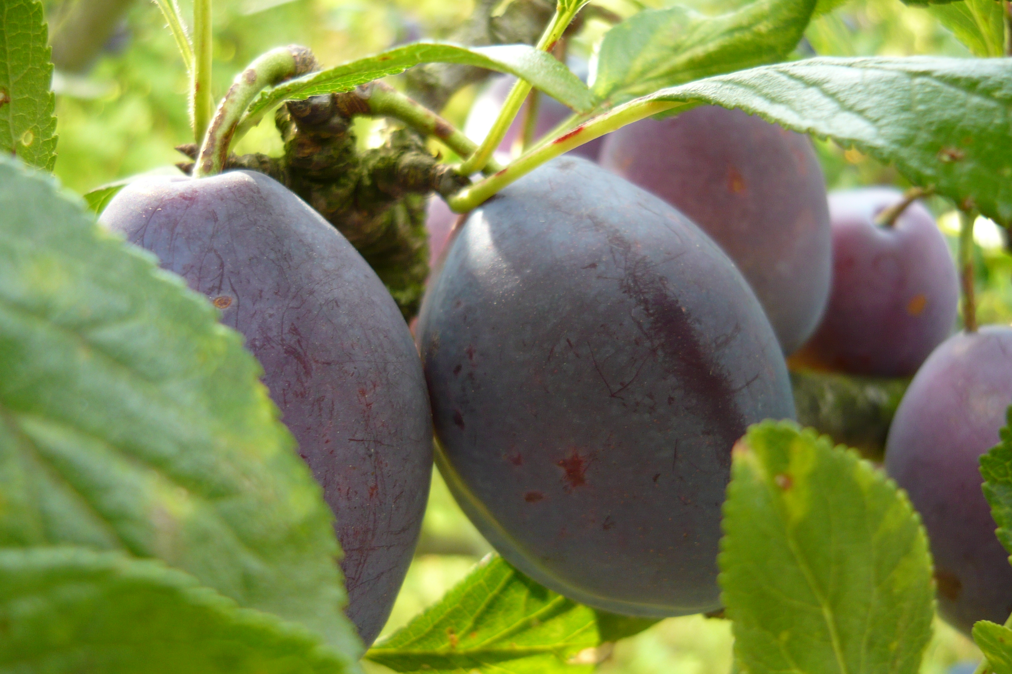 plum